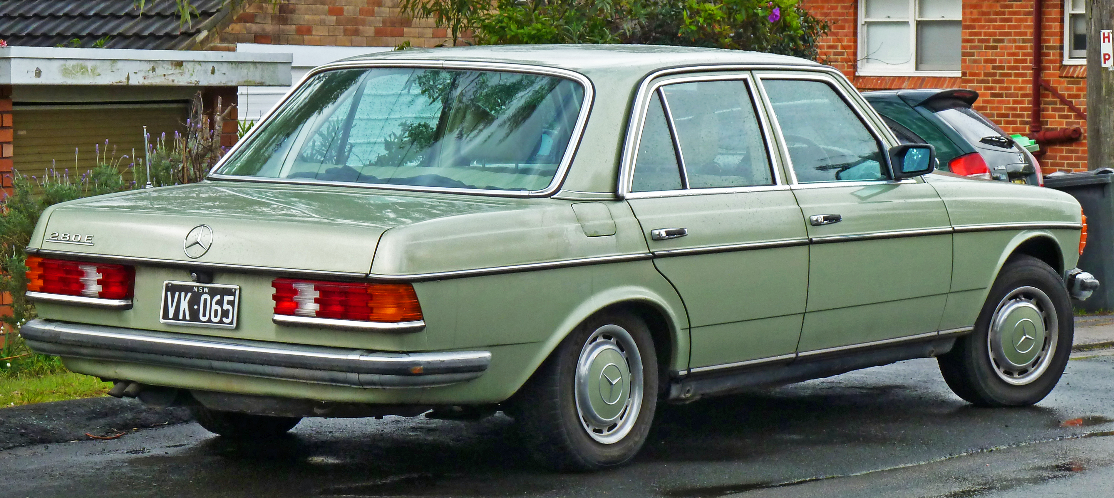 1979 Mercedes-Benz 280 E (W123) sedan. Photographed in Roseville Chase, New South Wales, Australia.